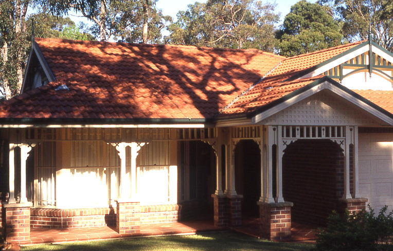 Federation home, south Turramurra, New South Wales, Sydney (Kodachrome slide scanned at low res)